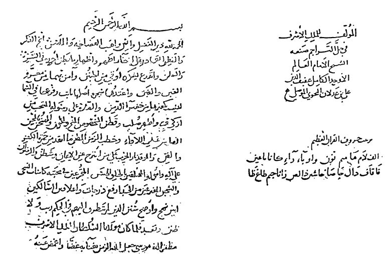 The cover (right) and the first page of Ibn Adlan's Fi hall al-mutarjam (On Cryptanalysis), also known as Al-mu'allaf lil-malik al-'Ashraf (The [Book] Written for King al-Ashraf) Undated, written for Emir Al-Ashraf Musa of Damascus (reigned 1229–1237). This is a copy preserved in Süleymaniye Kütüphanesi, or the library of the Süleymaniye Mosque of Istanbul (manuscript number 5359)